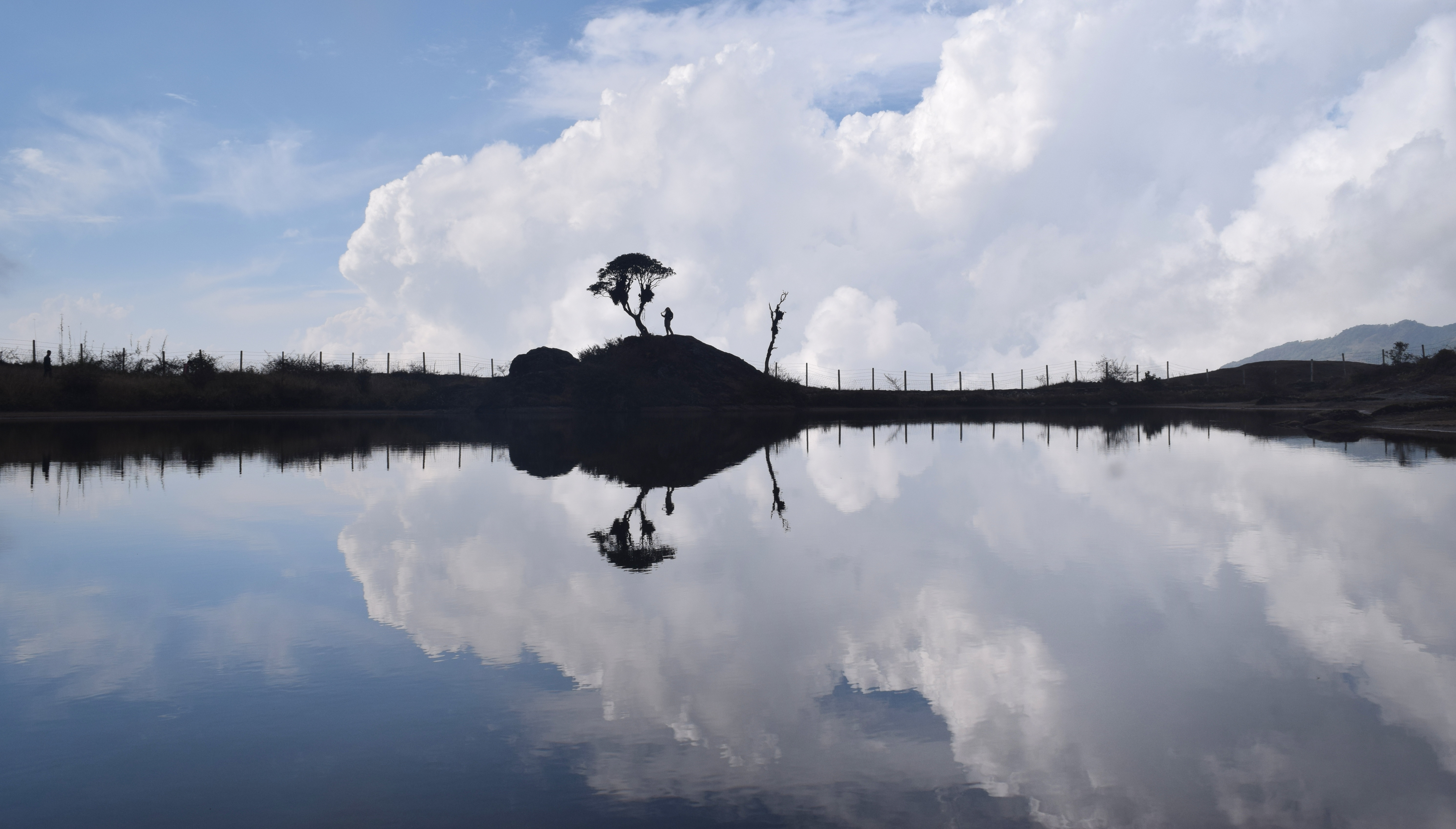 This picture shows the beautiful Gupkhapokhari in the afternoon time when more than half of the sky seems to be covered with clouds that have been reflected quite well.